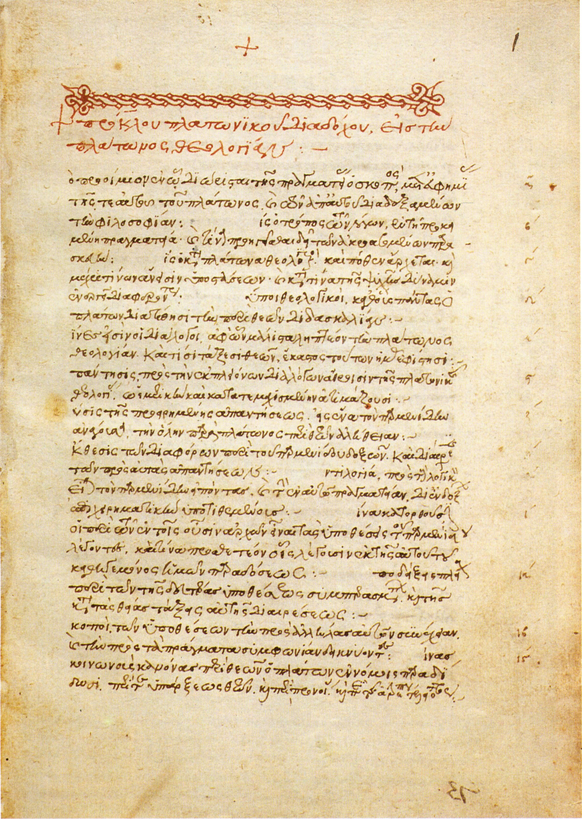 The beginning of Proclus’ Theologia Platonica in a manuscript from the library of Cardinal Bessarion. Manuscript Venice, Biblioteca Nazionale Marciana, Gr. 547, fol. 1r.